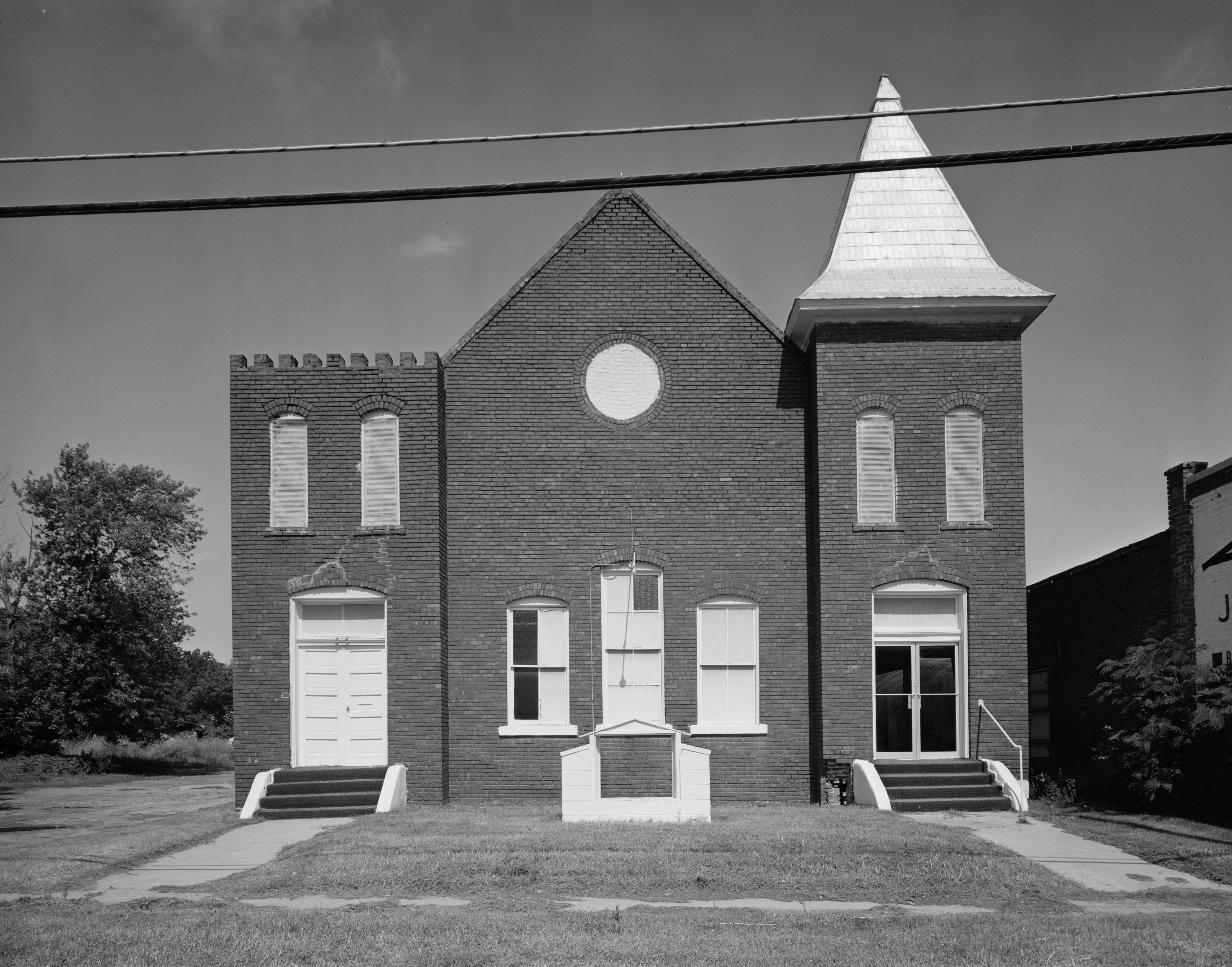 Front of the Central Baptist Church of Muskogee, located at 515 N. Fourth Street in Muskogee, Oklahoma, United States. Built in 1908, it is listed on the National Register of Historic Places.